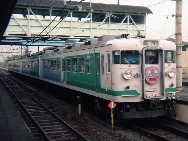 East Japan Railway Company, EMU type 167 Joyful Train "Marchen" at Shimmachi Sta.